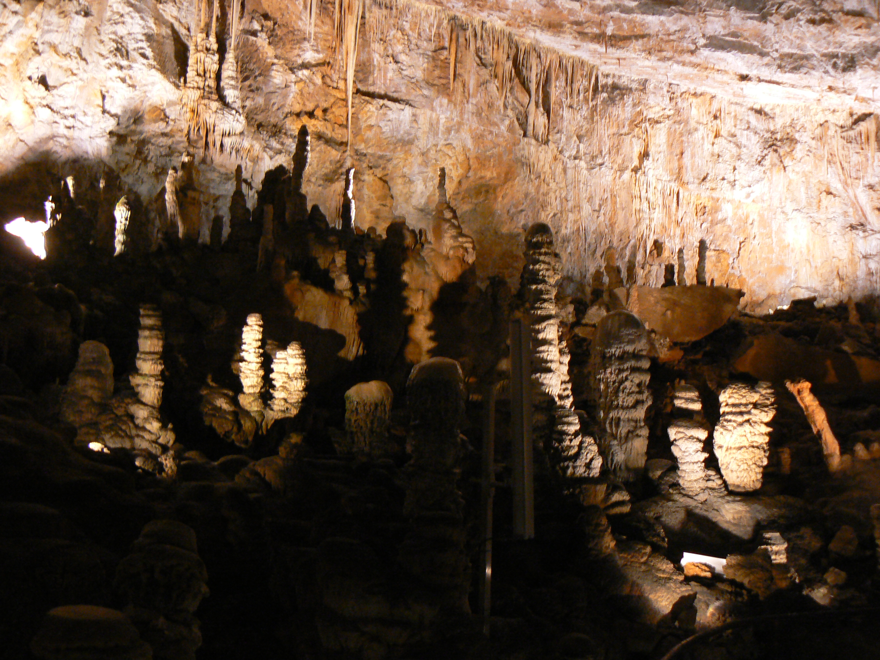 Stalagmites of Grotta Gigante that you can see when walking by the path into the main chamber.